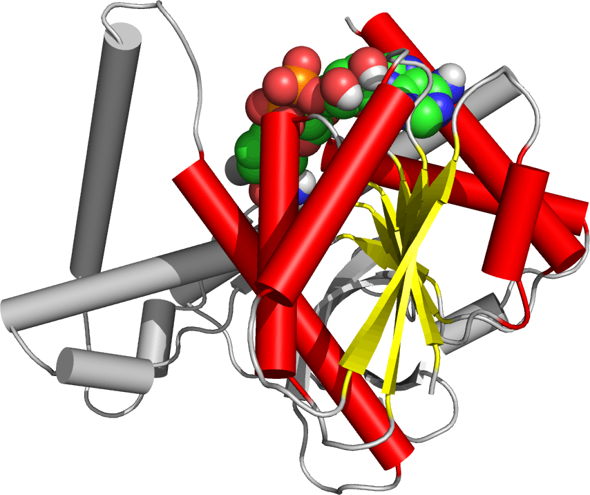 Cartoon diagram highlighting Rossmann fold (sheets yellow, helices red) within E. coli malate dehydrogenase derived from the 5KKA PDB structure. PyMOL commands for coloring: color yellow, resi 2-6+28-33+53-58+72-75+113-116+143-145 color red, resi 10-24+38-48+224-243+63-69+91-109+120-135